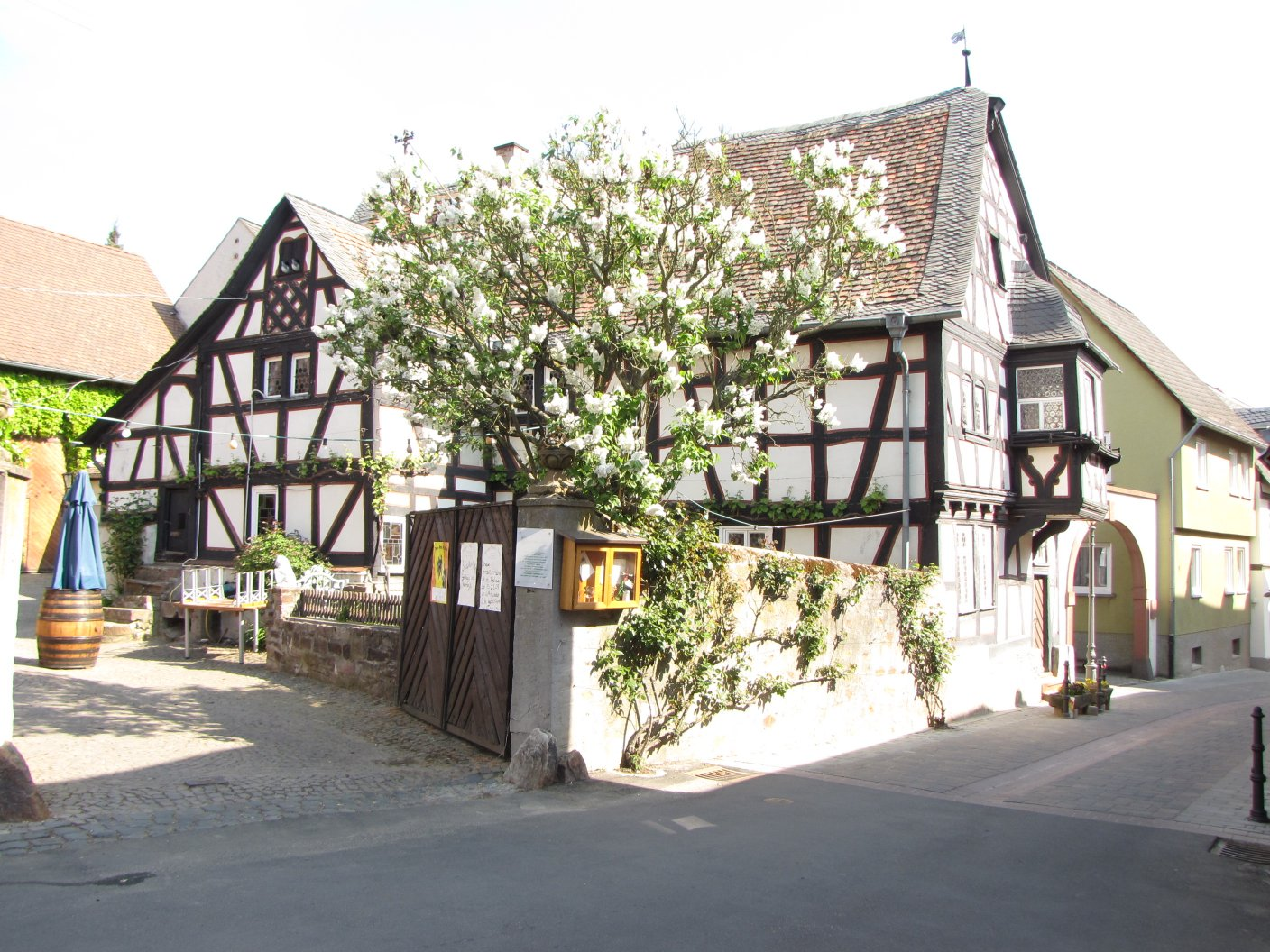 Kiedrich